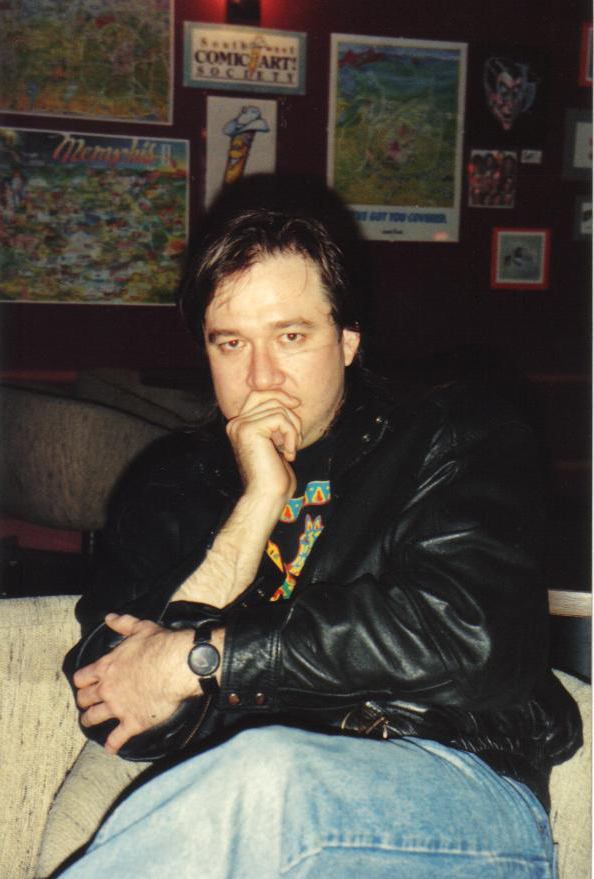 Comedian Bill Hicks at the Laff Stop in Austin, Texas.